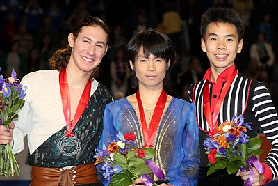 The men's podium at the 2014 Skate America. From left: Jason Brown(2nd); Tatsuki Machida(1st); Nam Nguyen(3rd).